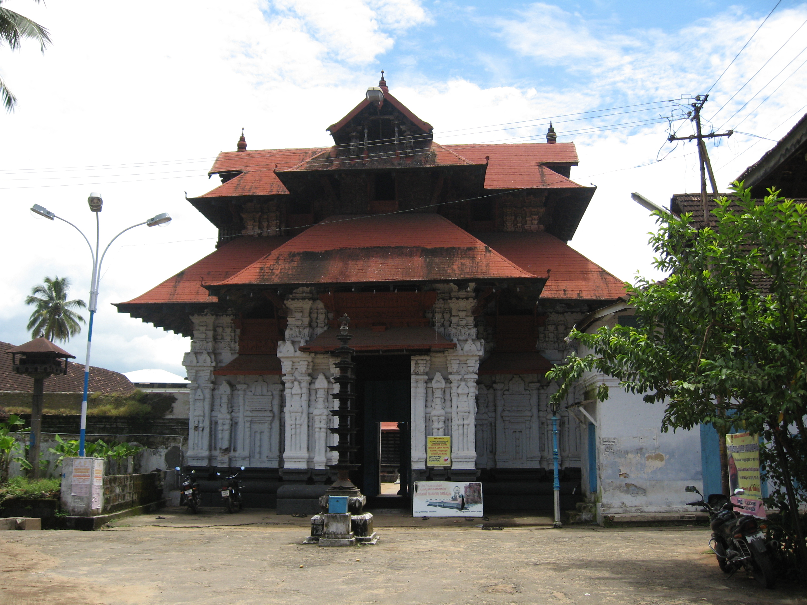 Poornathrayisa temple back side